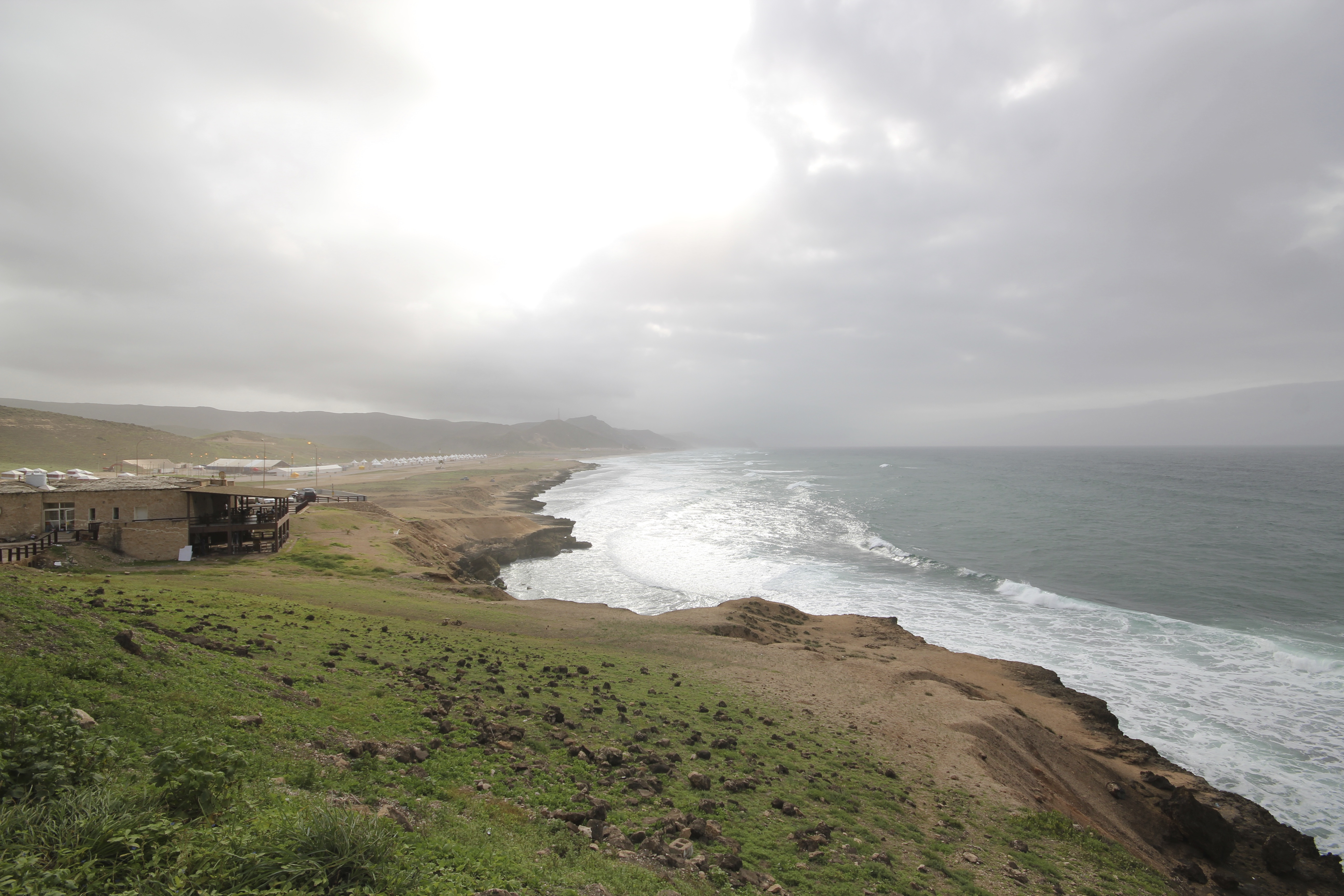 Al Mughsail, Dhofar.